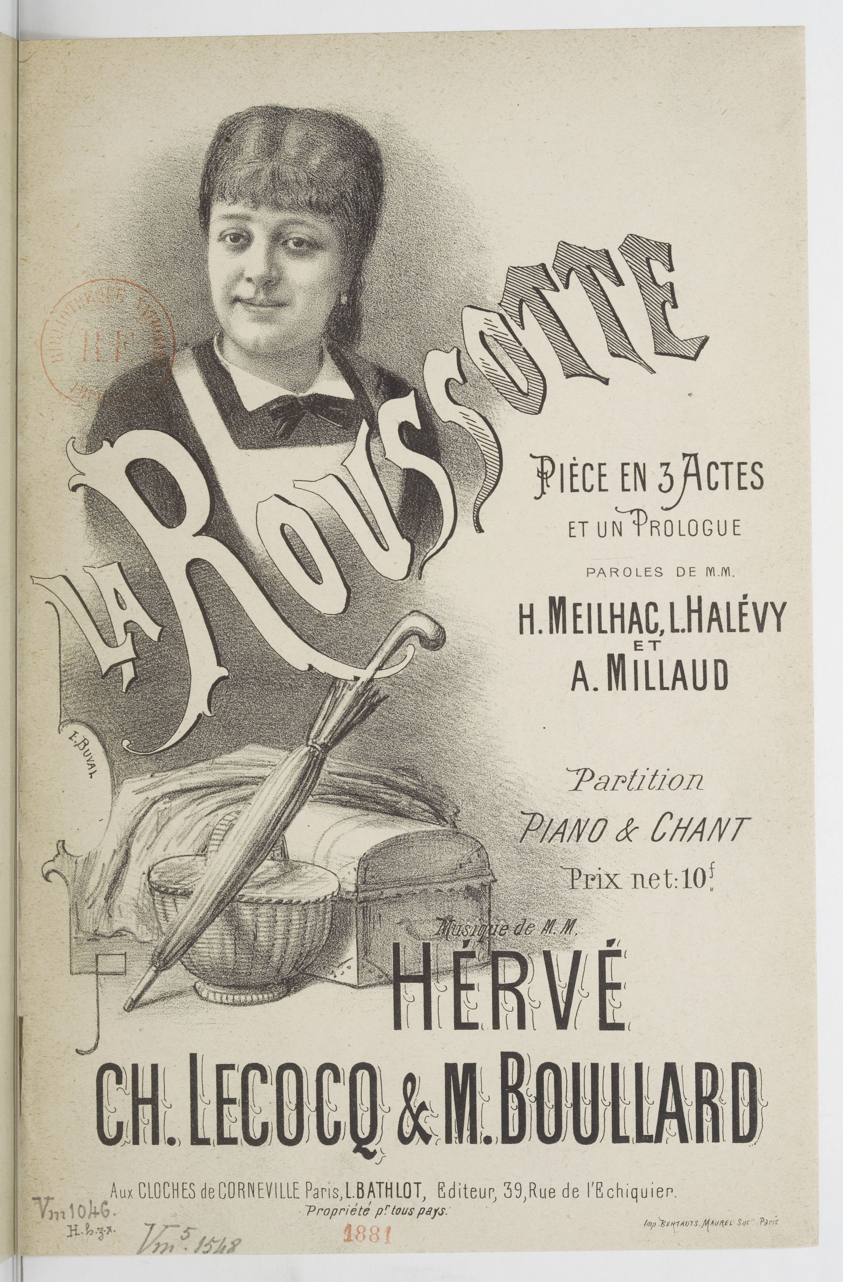 Cover to the vocal score of La Roussote, piece in 3 acts and a prologue